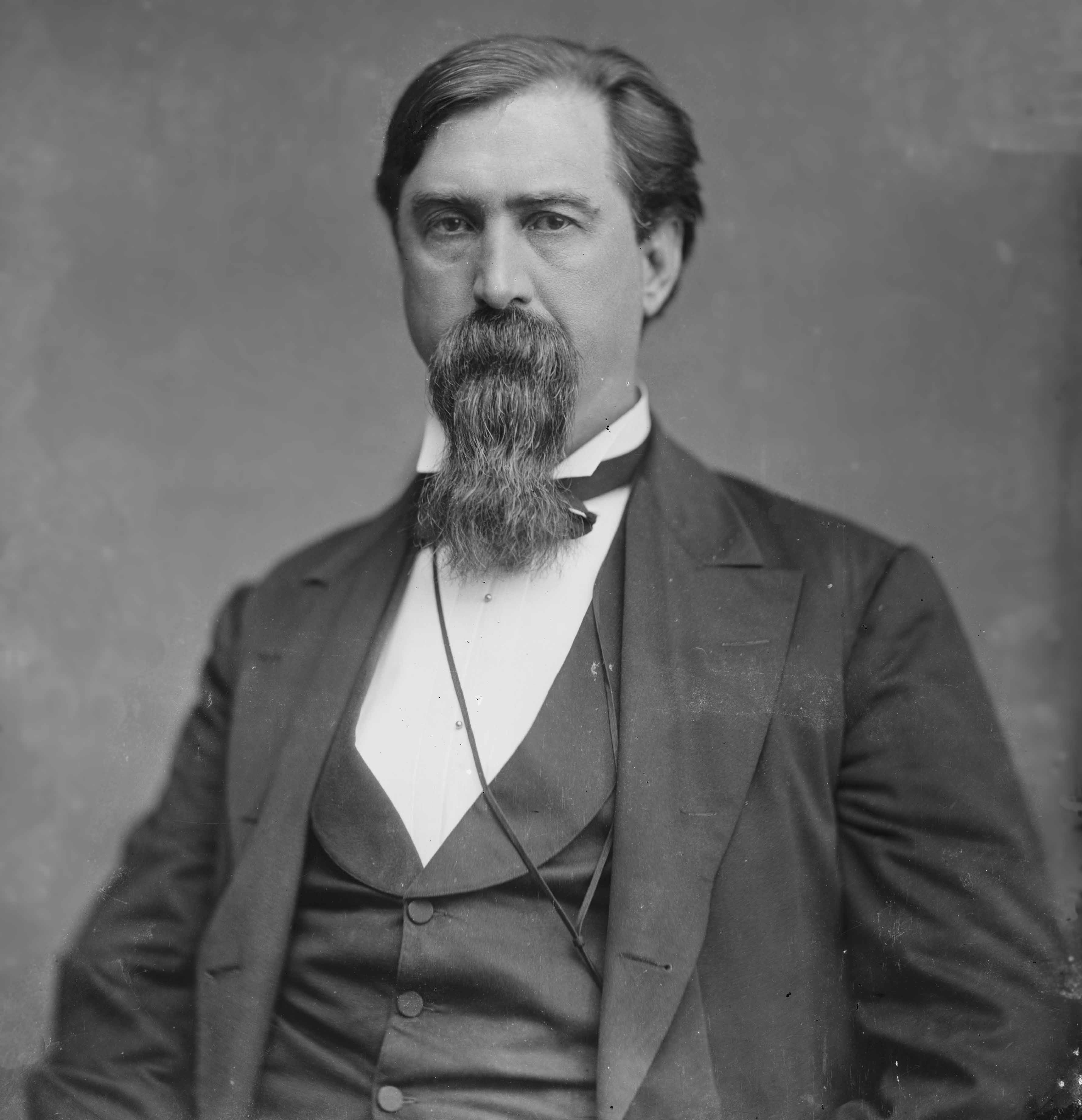 TITLE: Voorhees, Hon. Daniel Wolsey, Senator of Indiana CALL NUMBER: LC-BH832- 1936 [P&P] REPRODUCTION NUMBER: LC-DIG-cwpbh-04790 (digital file from original neg.) No known restrictions on publication. MEDIUM: 1 negative : glass, wet collodion. CREATED/PUBLISHED: [between 1865 and 1880] NOTES: Title from unverified information on negative sleeve. Annotation from negative, scratched into emulsion: 1936, Senator Voorhees, Indiana, 704 [crossed out]. Forms part of Brady-Handy Photograph Collection (Library of Congress). FORMAT: Portrait photographs 1860-1880. Glass negatives 1860-1880. REPOSITORY: Library of Congress Prints and Photographs Division Washington, D.C. 20540 USA DIGITAL ID: (digital file from original neg.) cwpbh 04790 CARD #: brh2003002136/PP